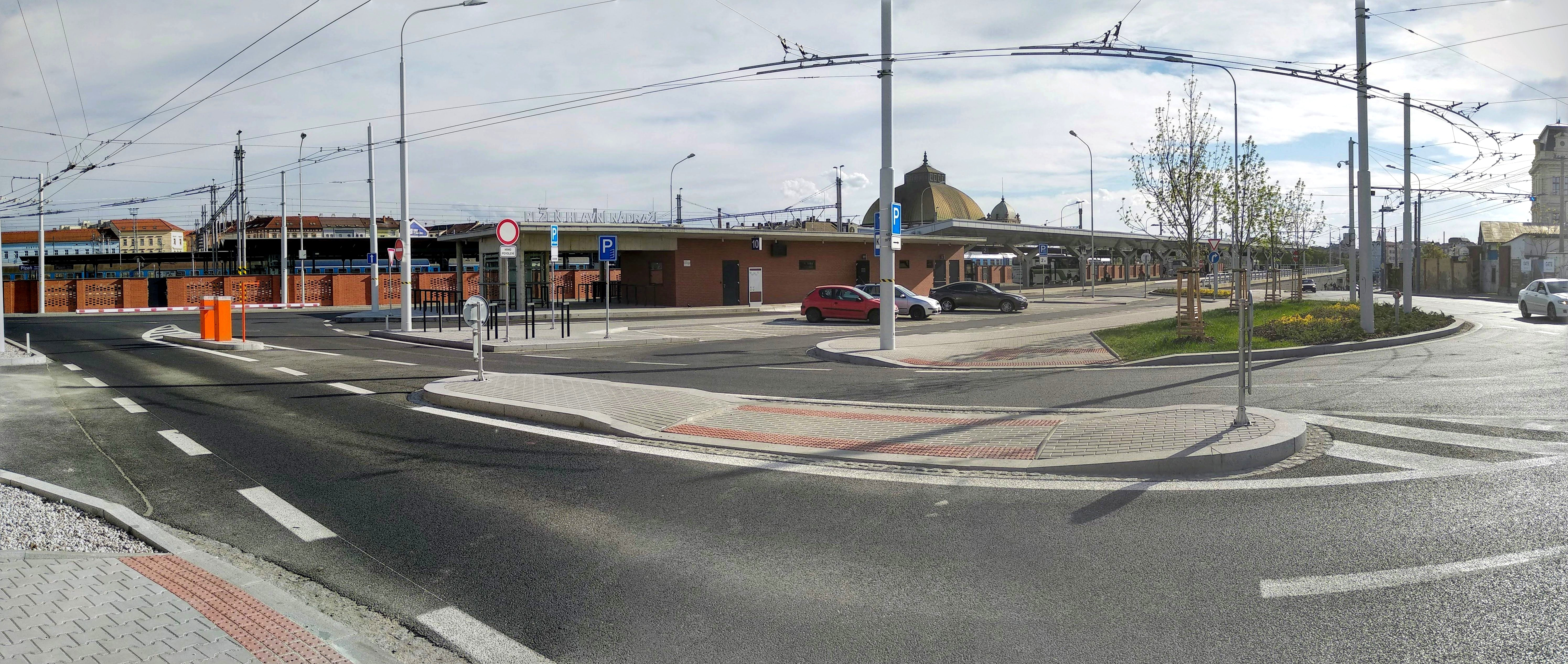 Pilsen main railway station